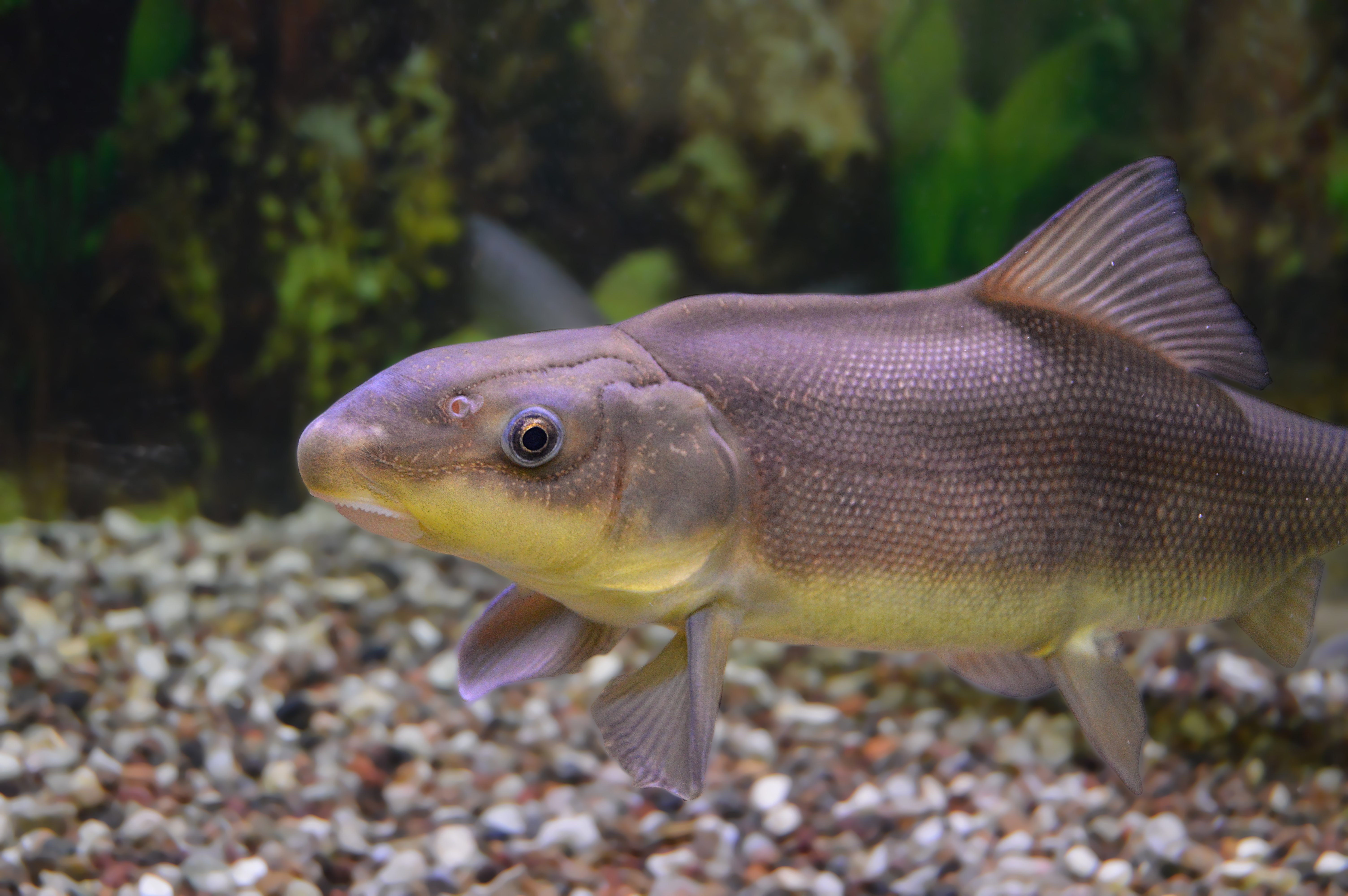 Photograph taken by Melanie Fischer, USFWS